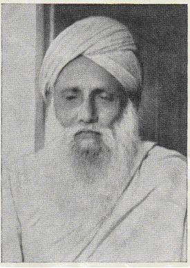 picture of Bhavabhushan Mitra